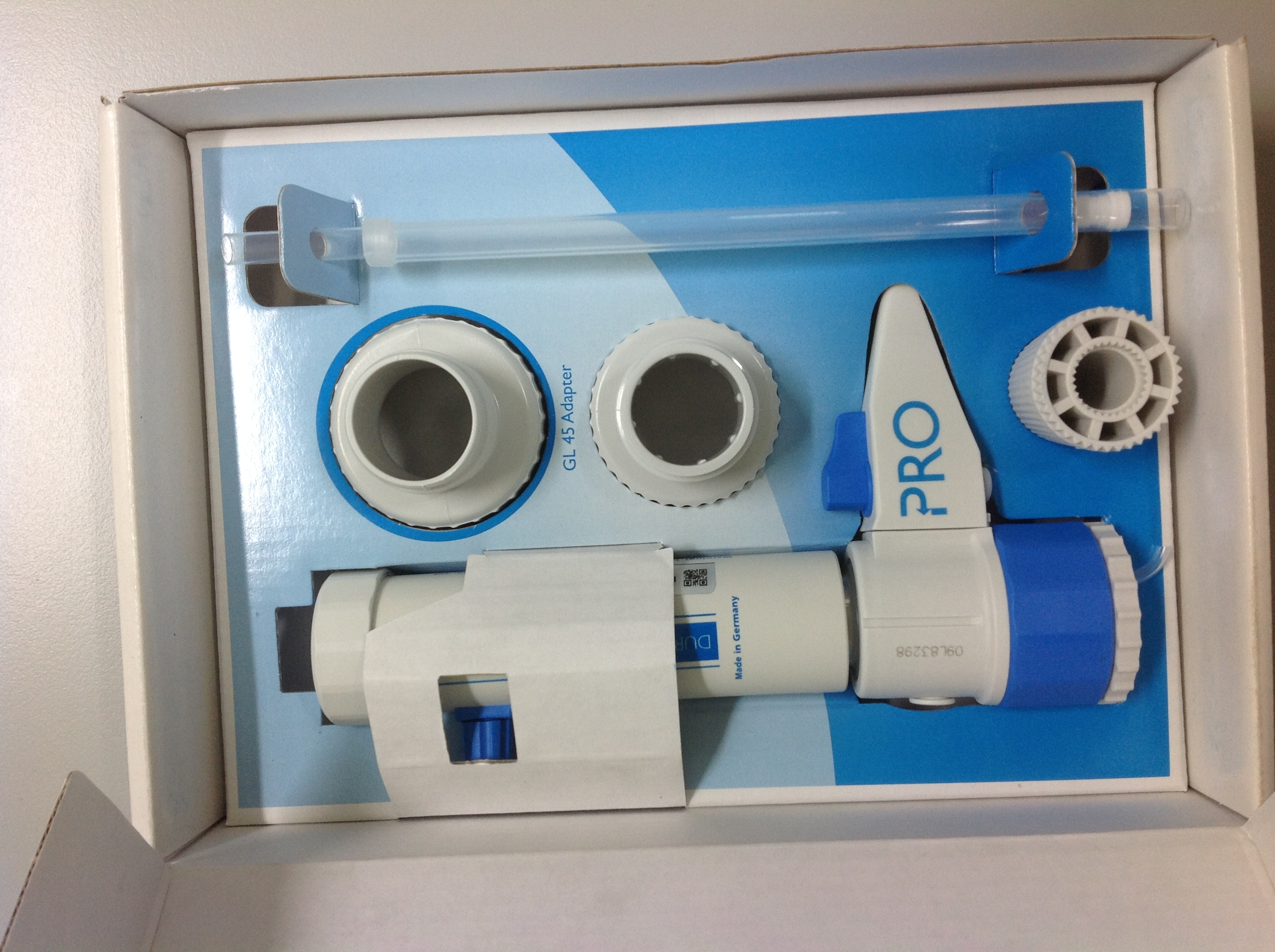 Top-bottle dispenser from another brand. Usually disperser comes with a various size of caps, for benefits of using with many sizes of bottle.